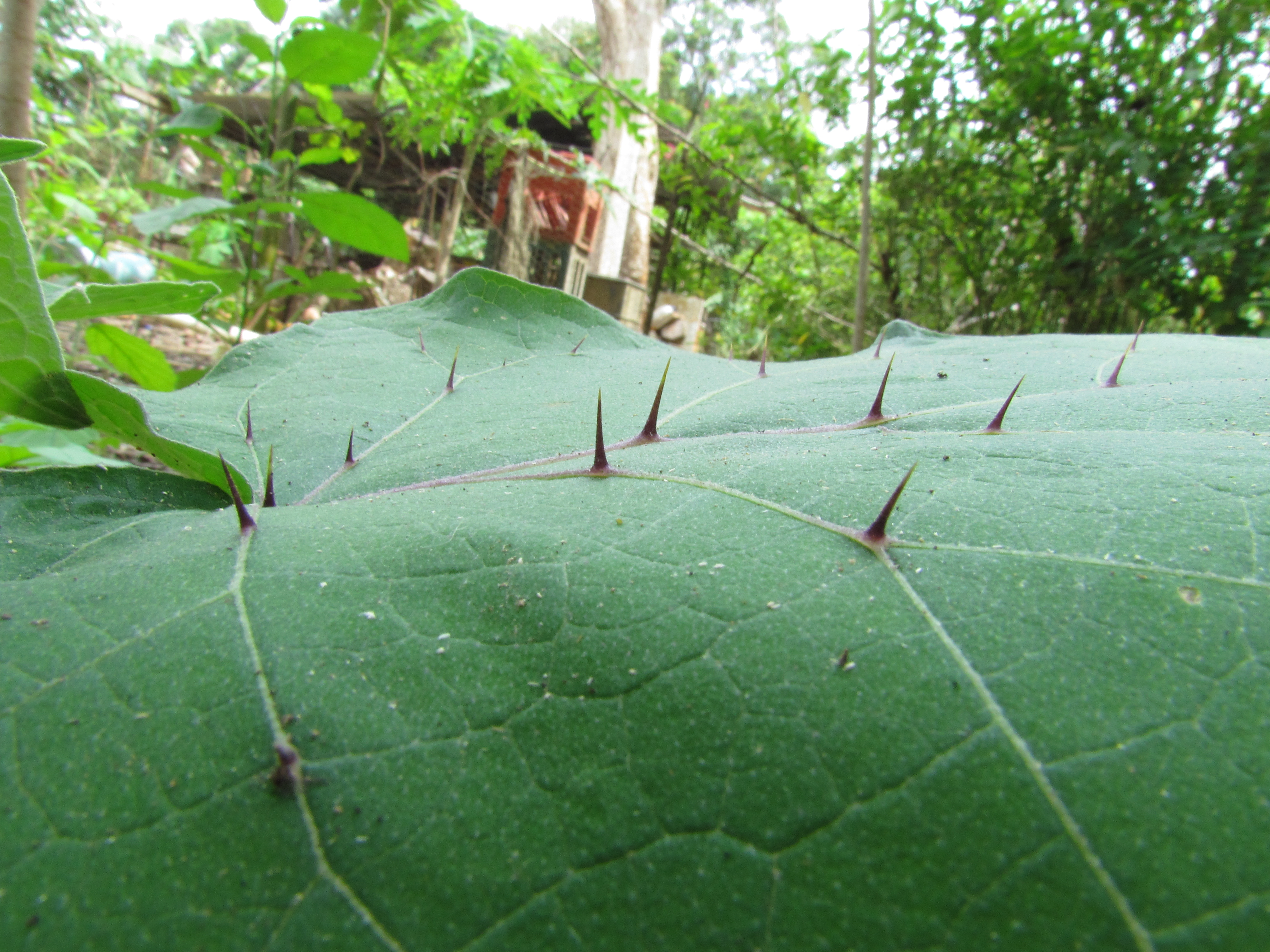 Solanum Asperrinium Bitter et Moritz